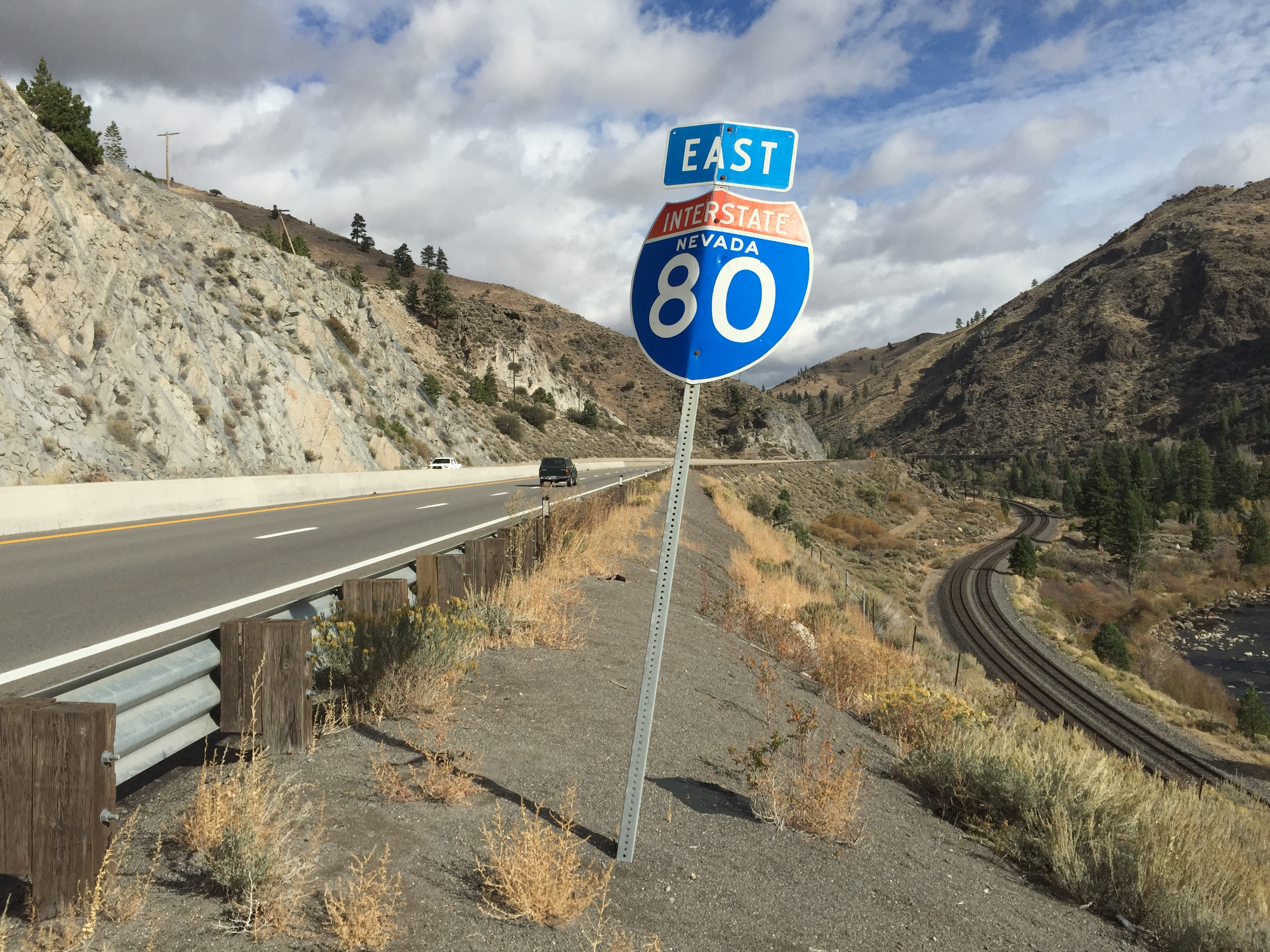 "East Interstate 80" sign along eastbound Interstate 80 in Washoe County, Nevada just east of the California state line